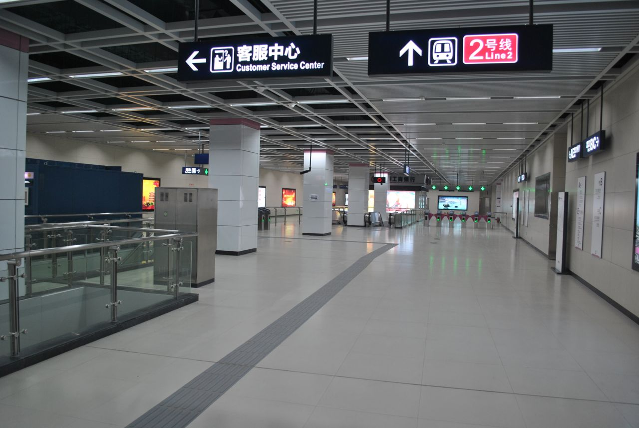 Xunlimen Station